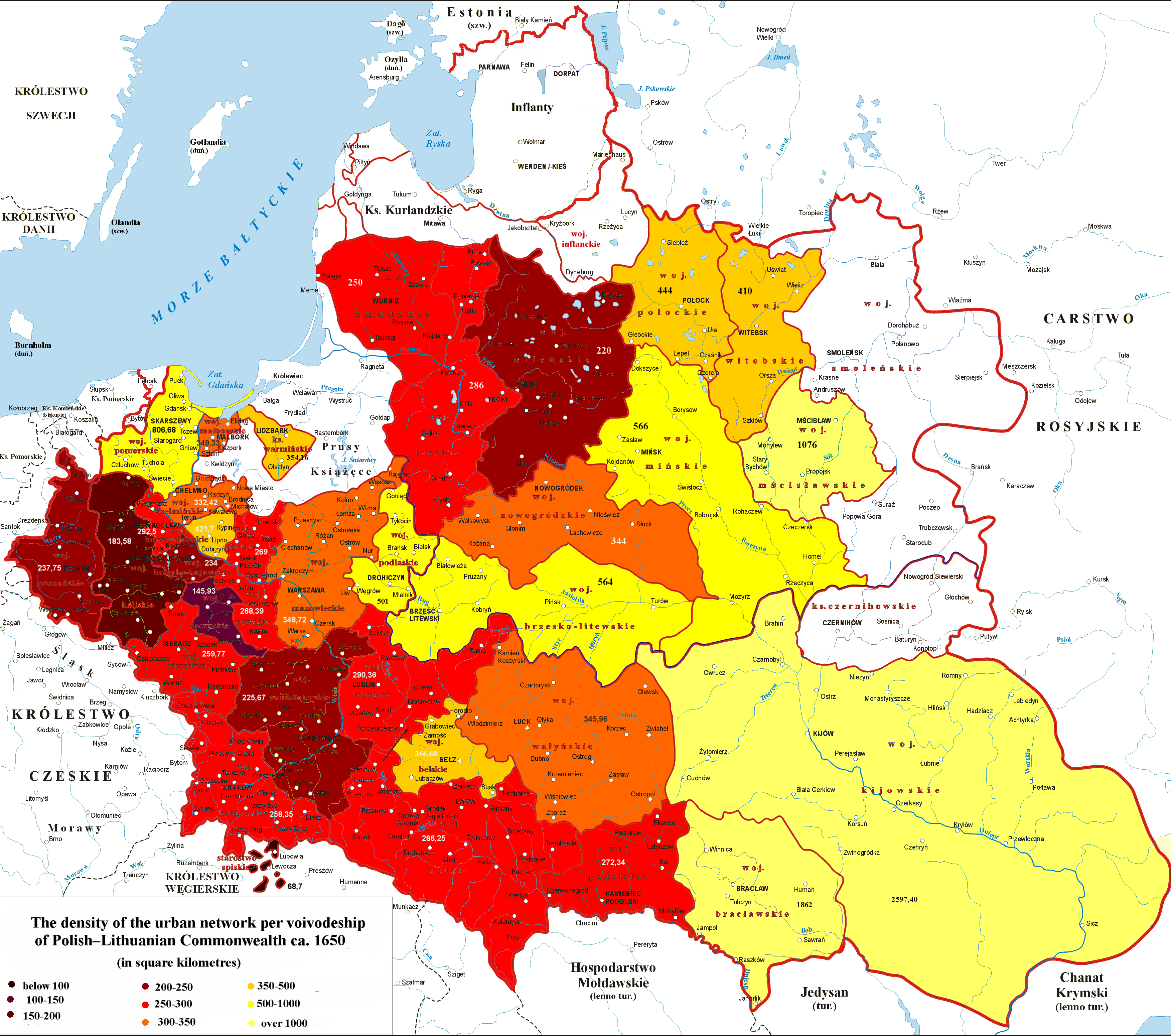 The density of the urban network per voivodeship of the Crown of the Polish Kingdom ca. 1650 (Eng)